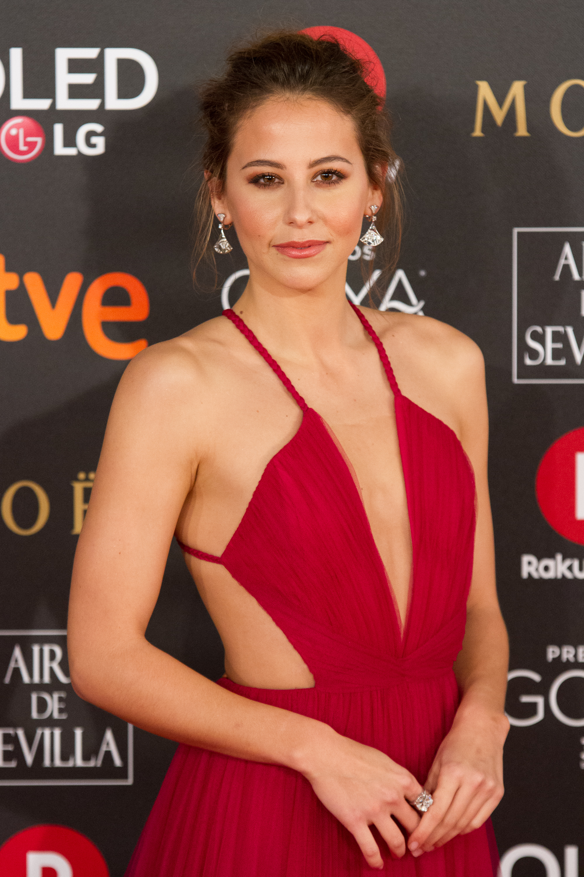 32nd Goya Awards, 2018.